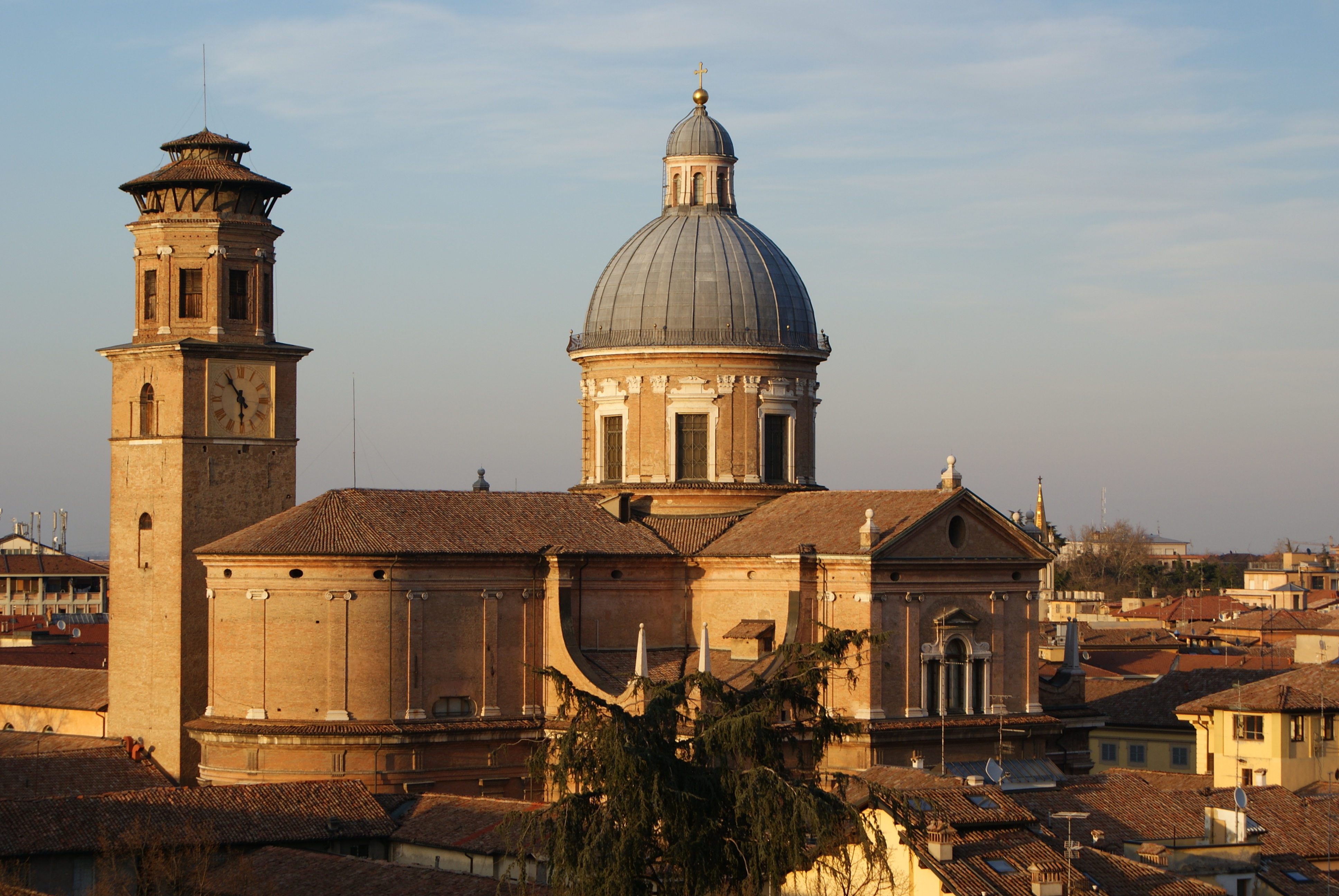 Church of Beata Vergine della Ghiara, Reggio Emilia, Italy